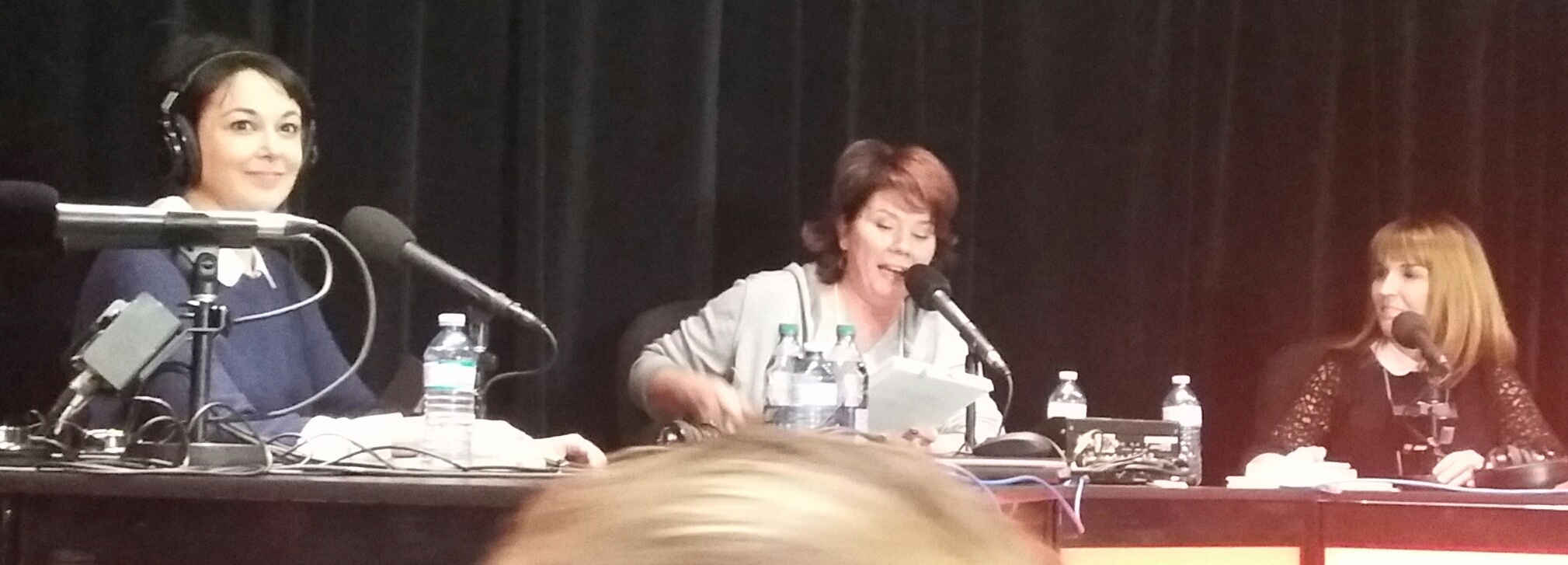 Marina Orsini, Claudia Larochelle & Valérie Guibbaud photographed in Montreal, Quebec, Canada at the Salon du livre de Montréal 2015.